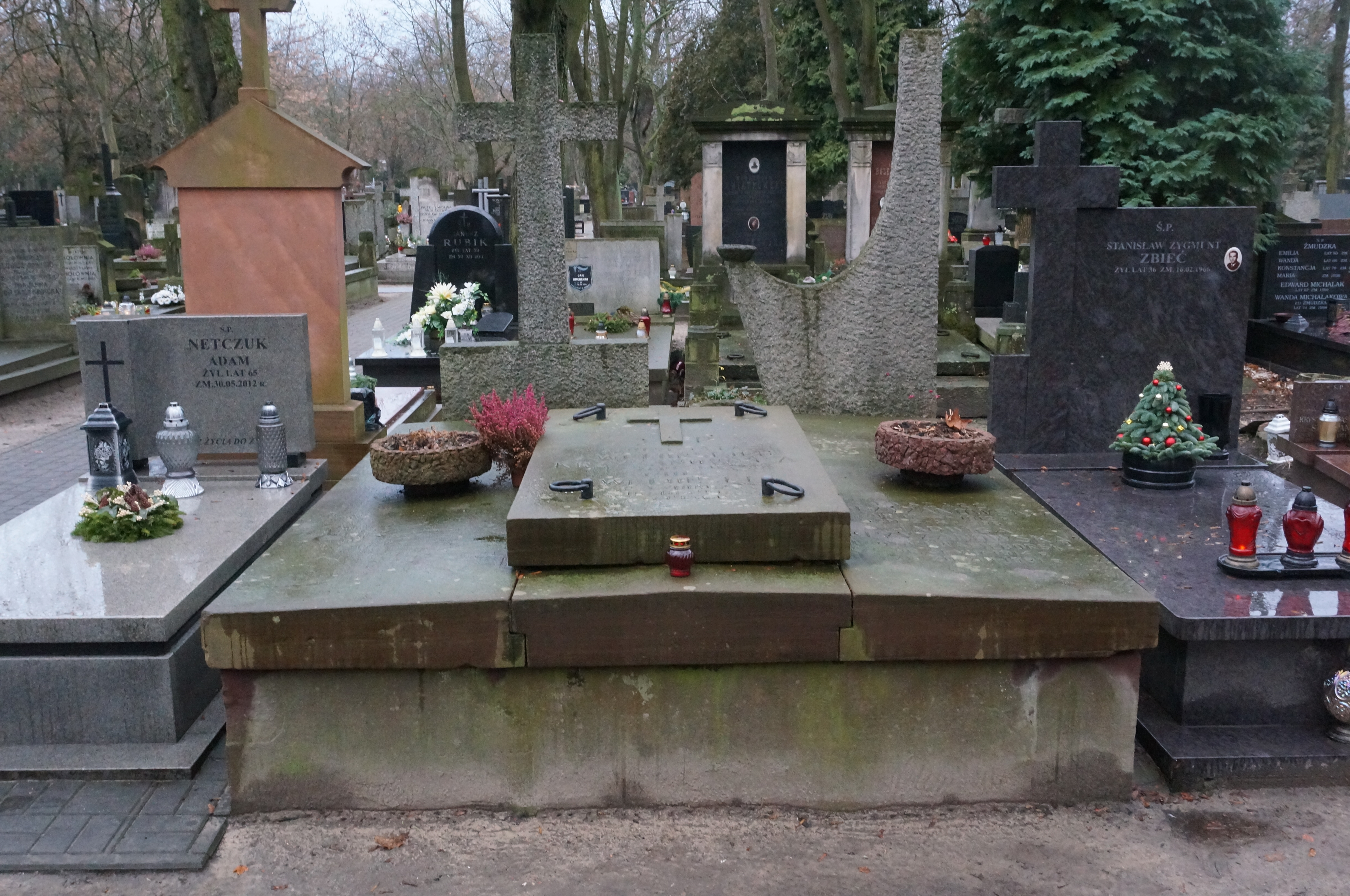 The grave of Pius Weloński at the Powązki Cemetery (section 90, row 1, grave 29, 30)